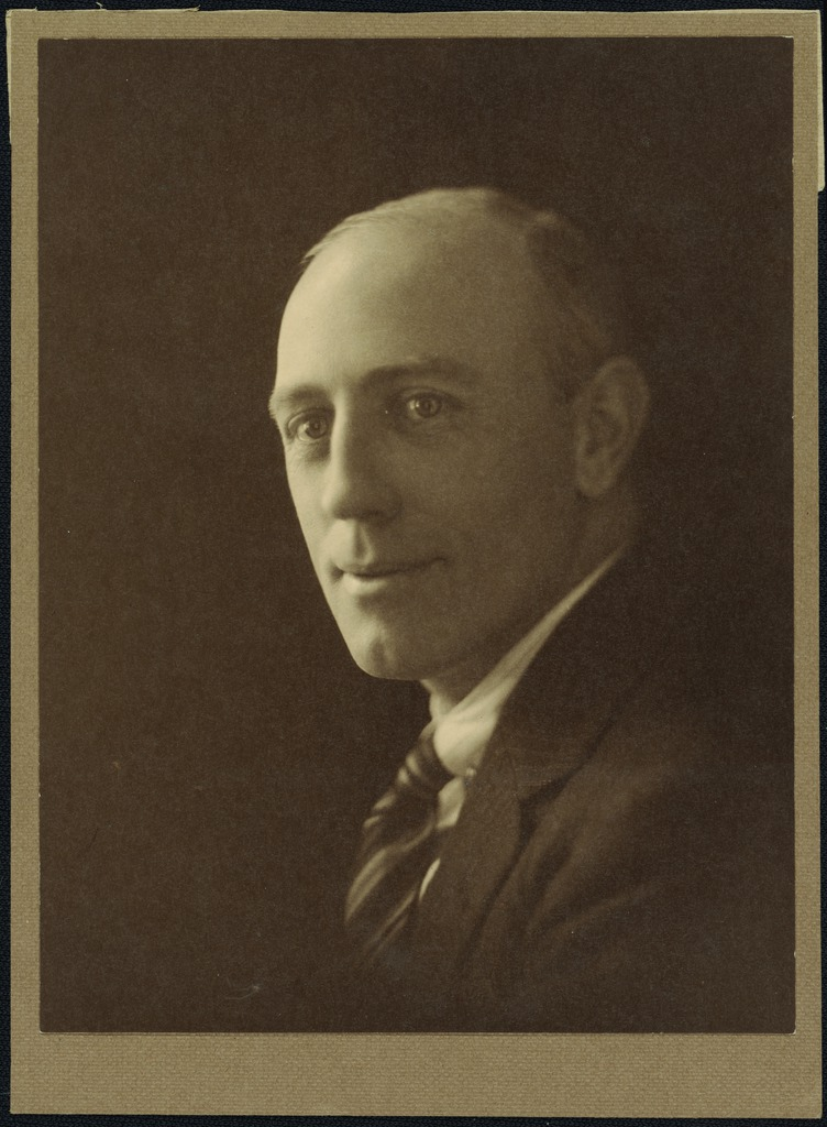 Lindsay, Lionel, Sir, 1874-1961. Title devised by cataloguer based on inscription and other reference sources.; Part of the Sir Lionel Lindsay collection of photographs of family and friends, ca. 1880-ca. 1960.; Inscriptions: "Daryl Lindsay"--In ink on verso.; Condition: Sm. scratches.; Also available in electronic version via the Internet at: Persistent URL .au/nla.pic-vn4226809